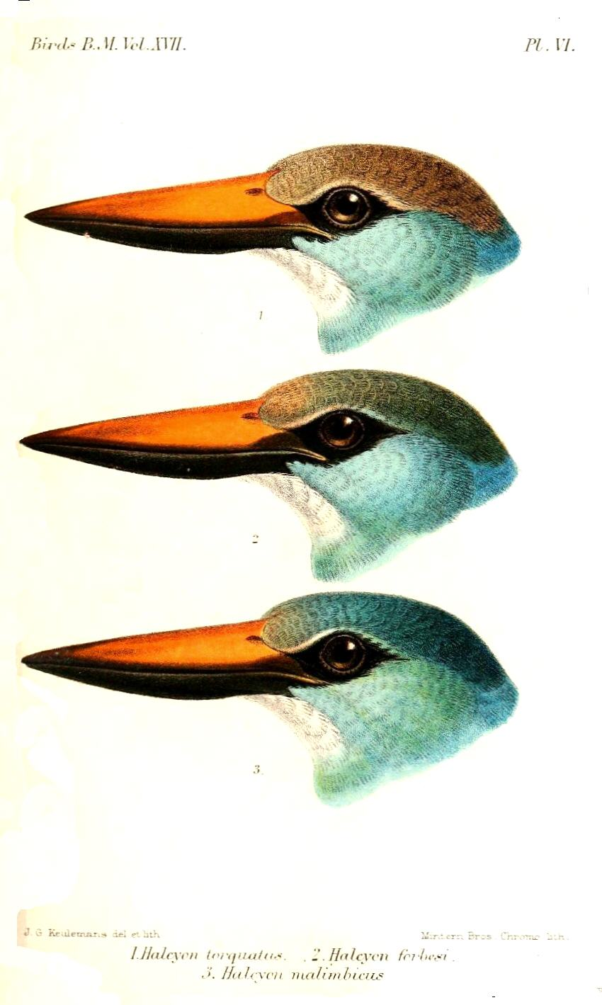 Subspecies of Halcyon malimbica, Blue-breasted Kingfisher; H. torquatus = H. m. torquata (top); H. forbesi = H. m. forbesi (centre); and H. malimbicus = H. m. malimbica (bottom)